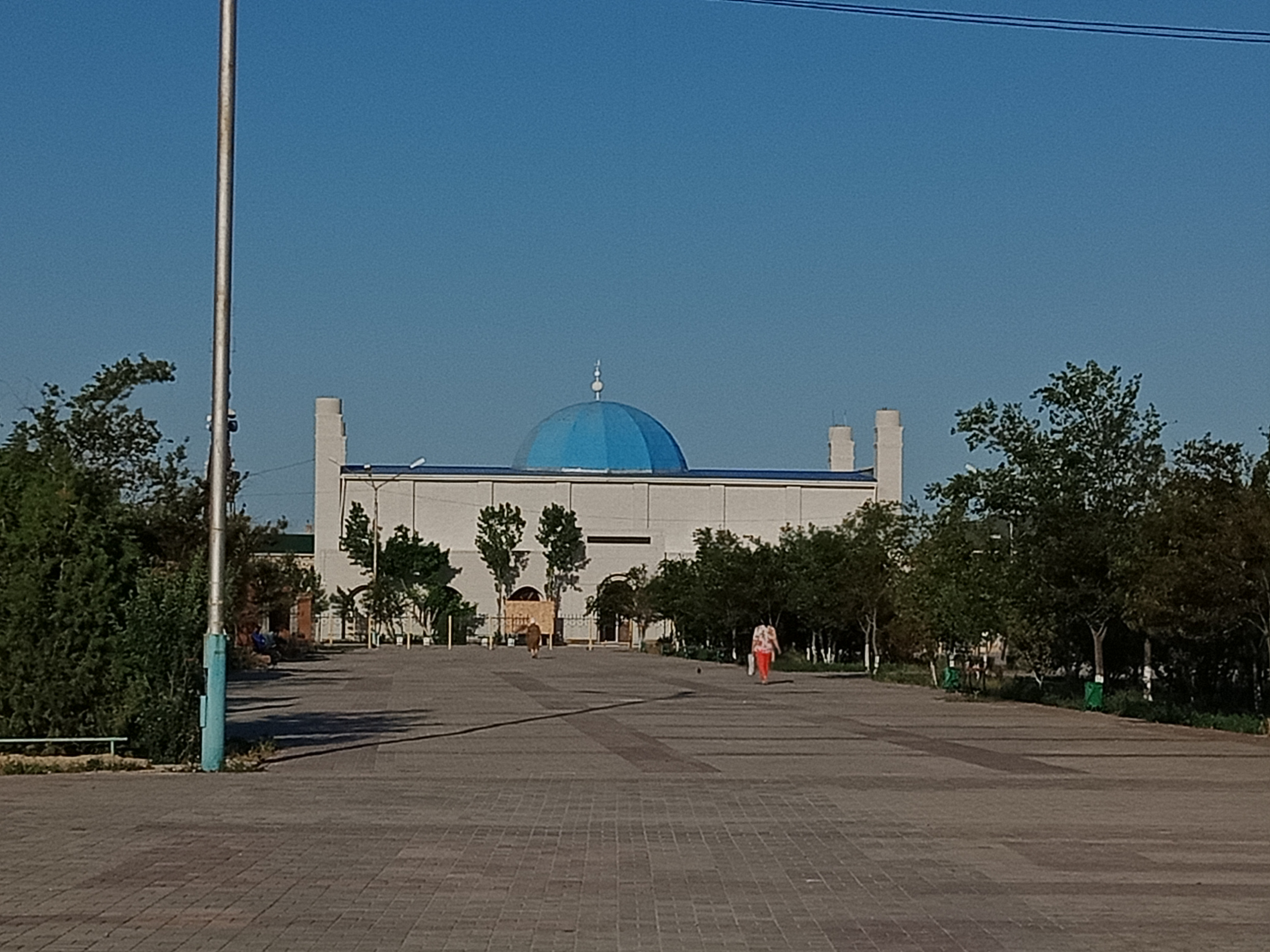 Mosque in Zhanaozen